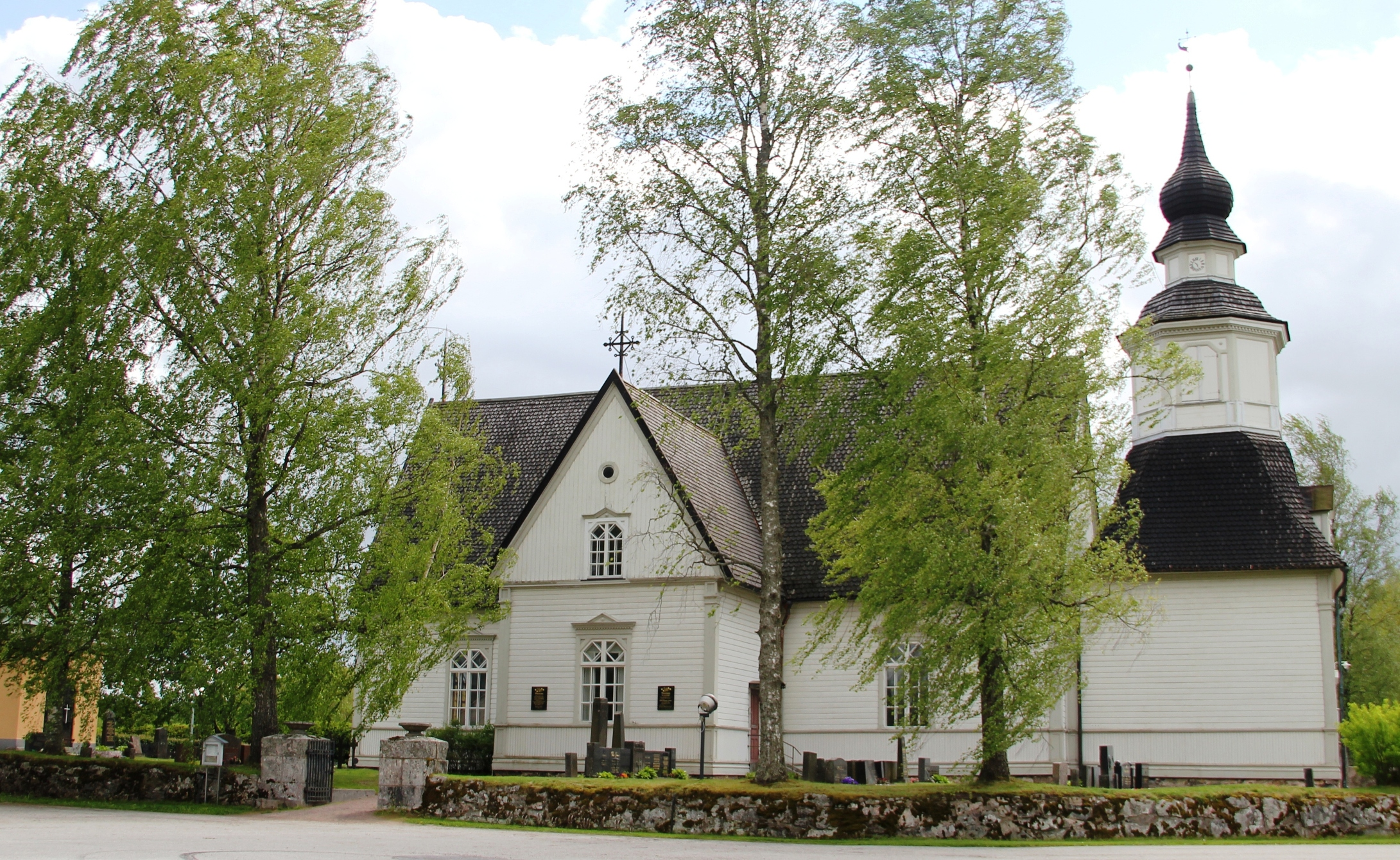 Marttila Church, built by Antti Piimänen in 1765